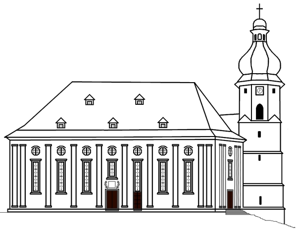 Most Holly Trinity Church in Aš, Czech Republic. Burn Out in 1960. (Own Painting)